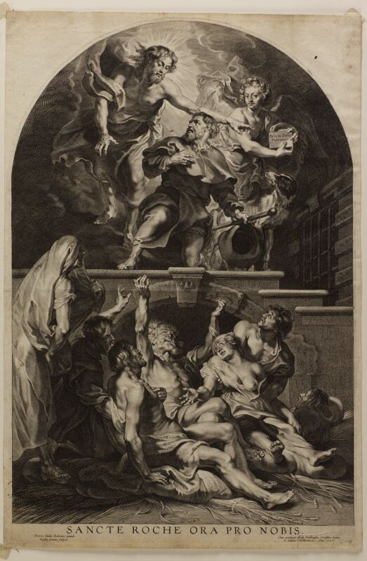 Engraving after Rubens' Saint Roch altarpiece in the Saint-Martin's church, Aalst, Belgium.